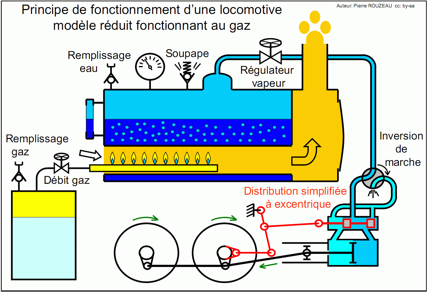 Model_steam_locomotive_principle_schematic (french version)